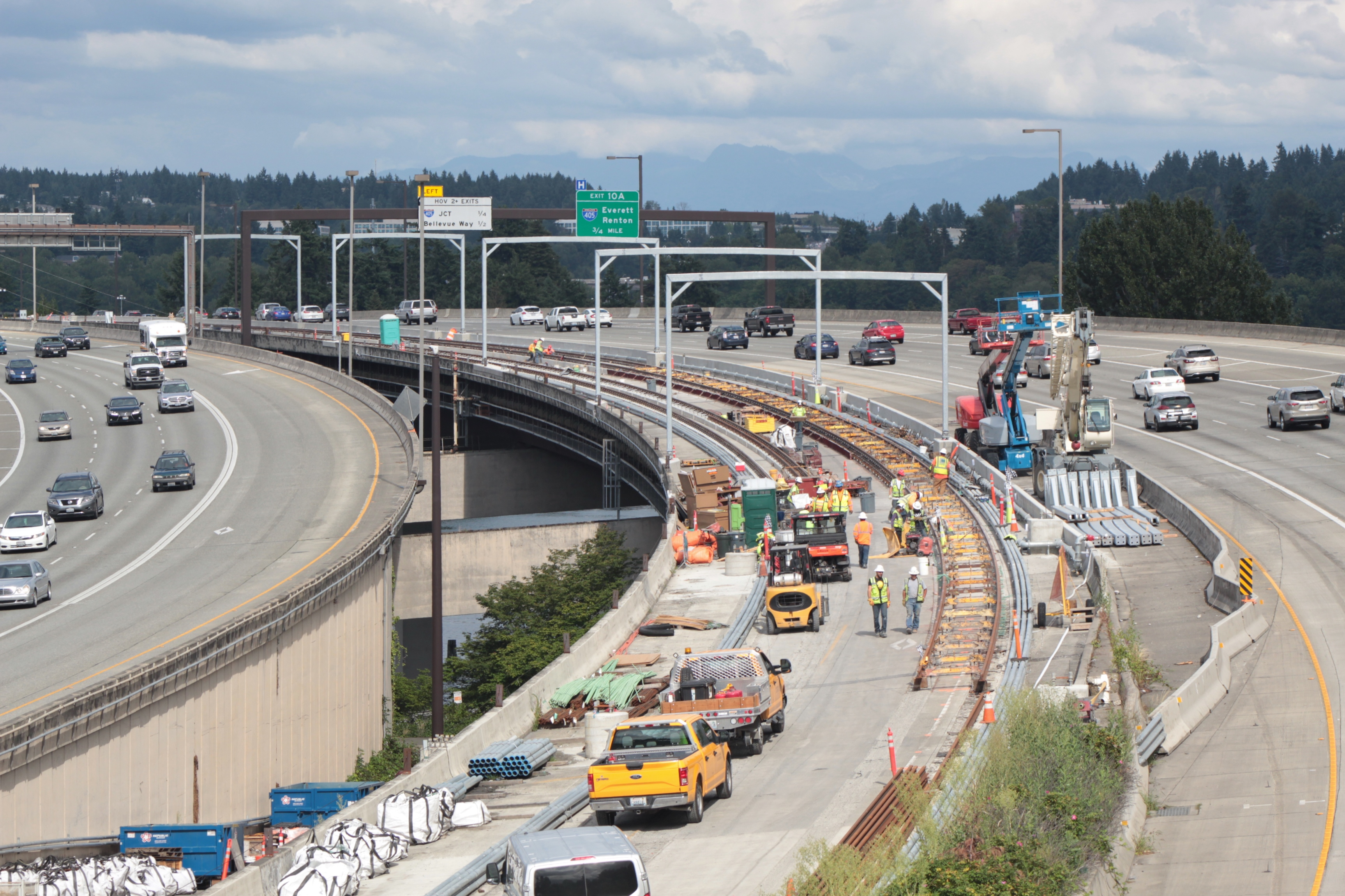 A section of the East Link Extension in the median of Interstate 90 on the East Channel Bridge where tracks and catenary supports have been installed.